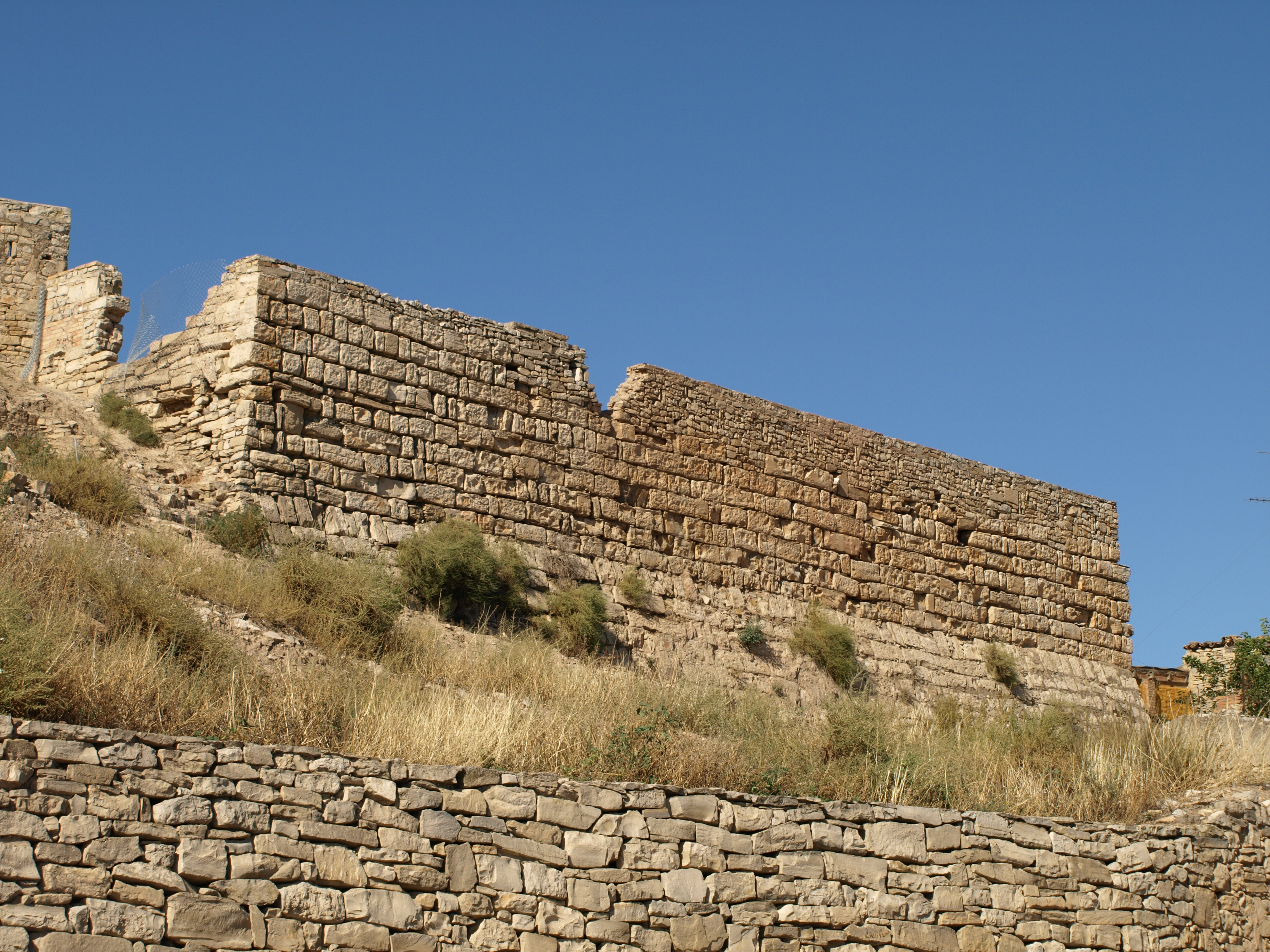 Tàrrega castle.